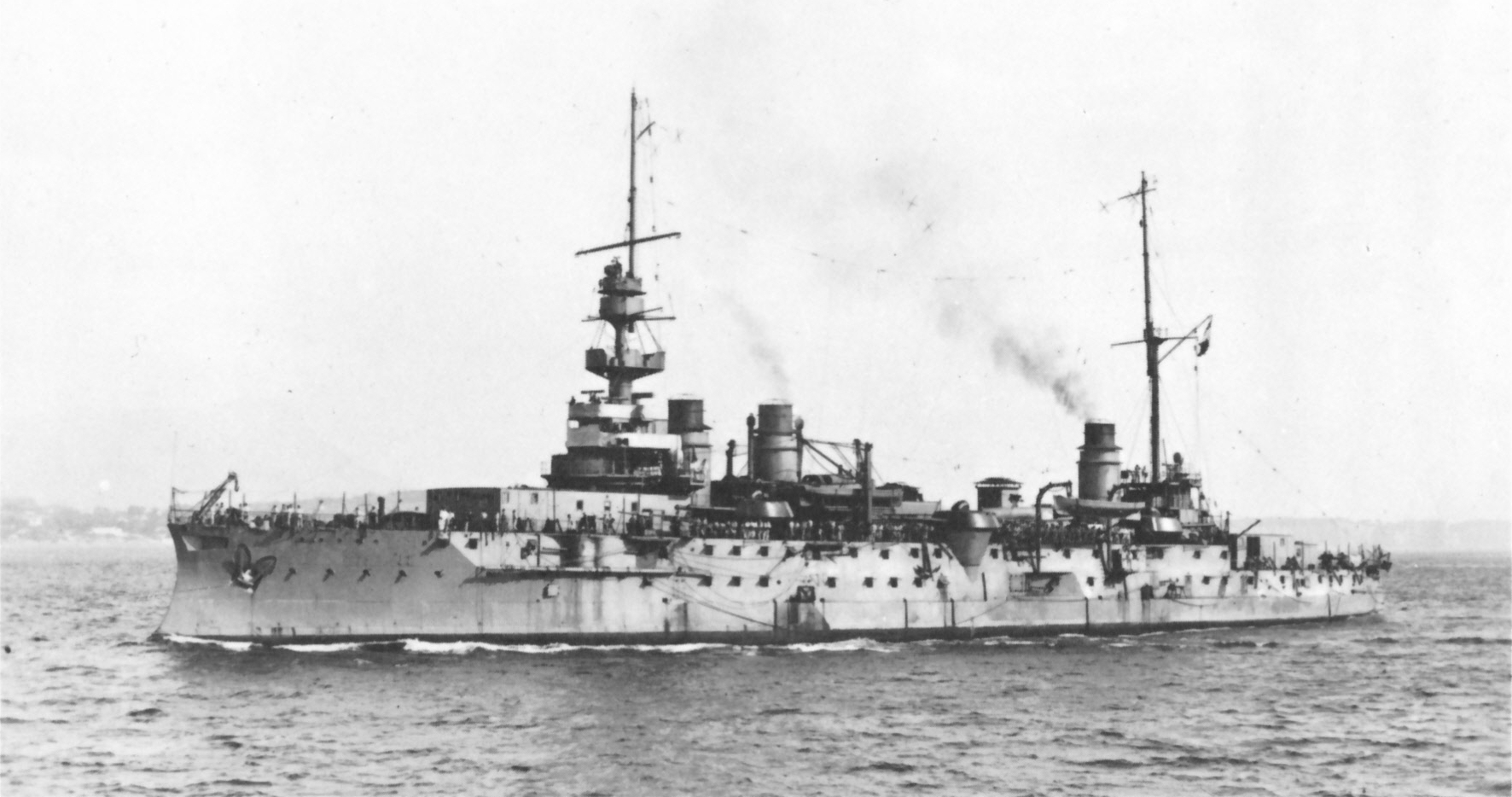 The French battleship Republique, photographed after its 1918 conversion to gunnery training ship.